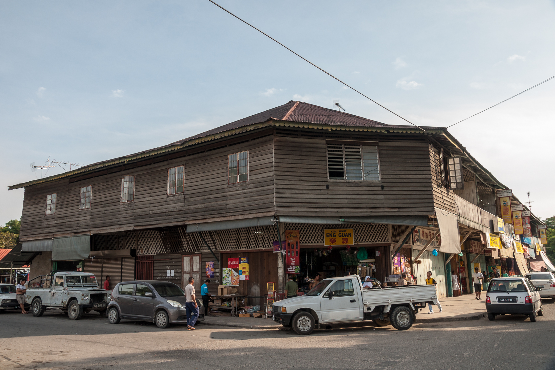 Kinarut, Sabah: Old shoprow near the railway station